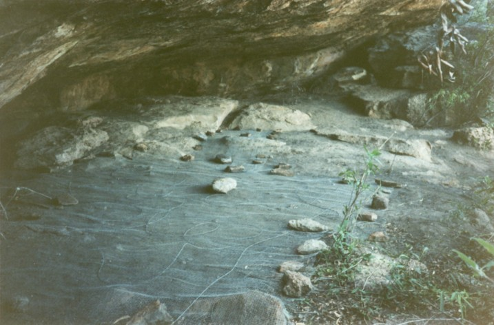 Photo taken of excavation site up on Ngarrabullgan during a visit during 1991